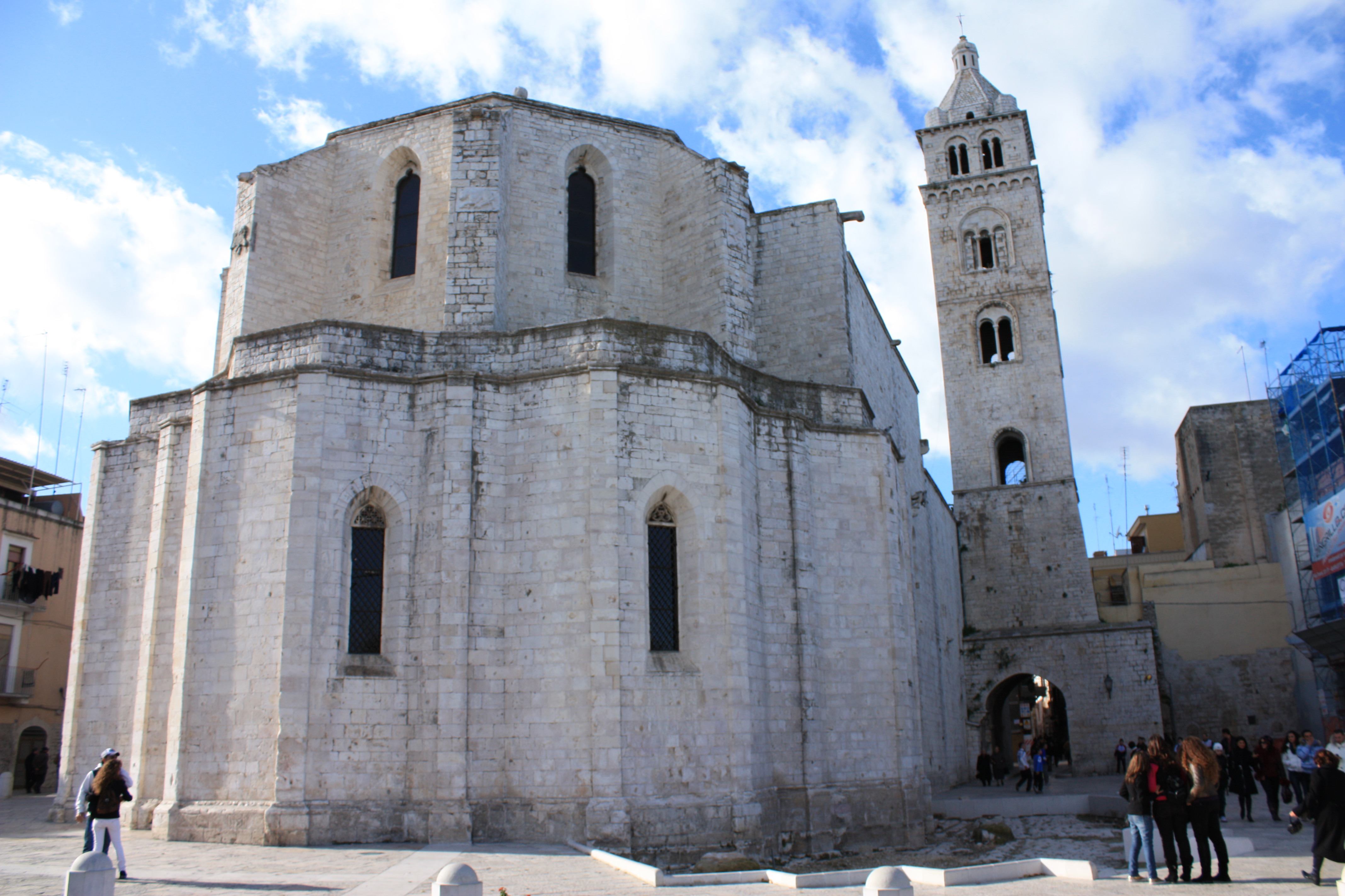 Absides of Cathedral of Santa Maria Maggiore in Barletta, Italy